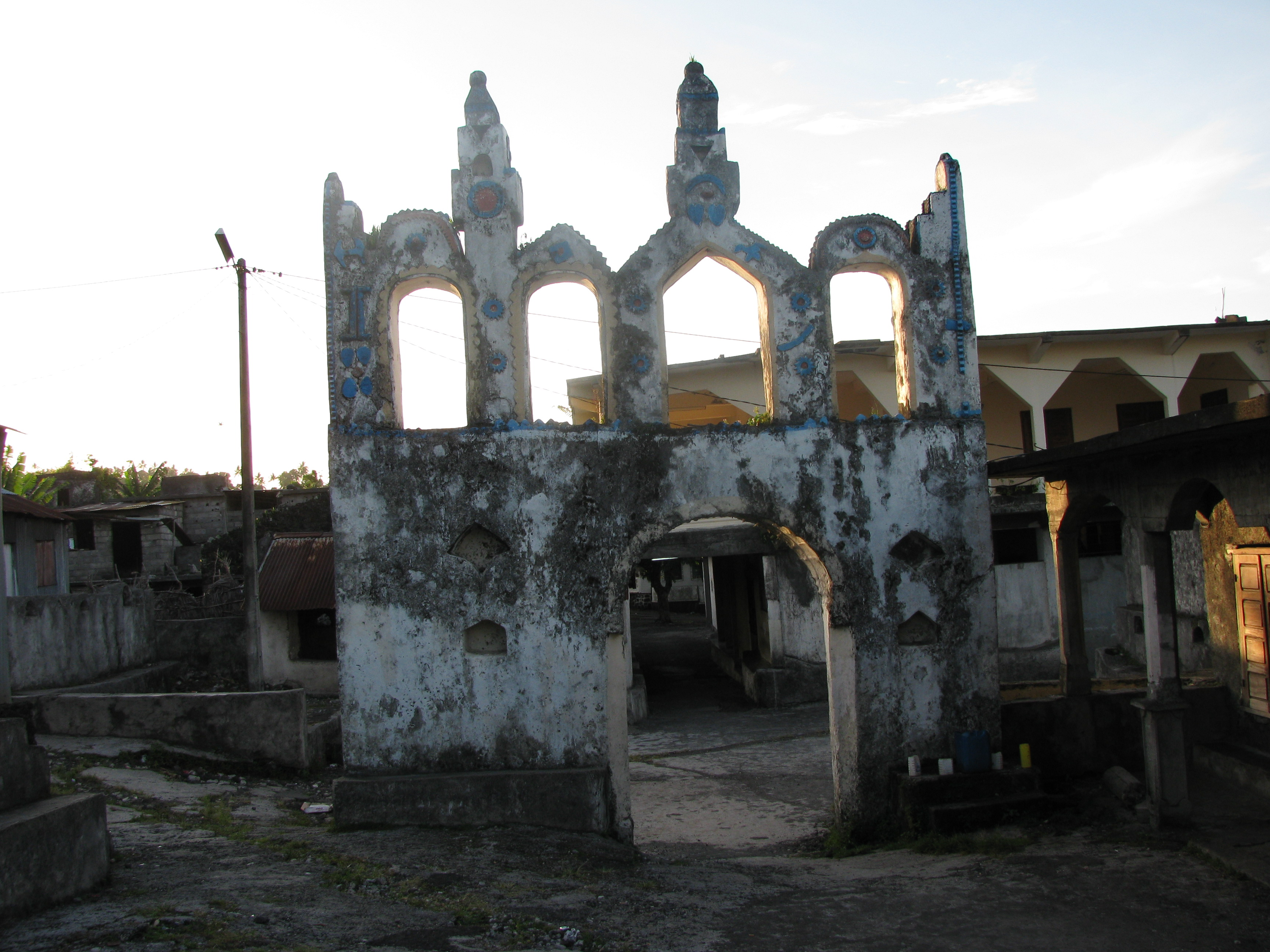 le minaret de chouani vu de derrière (upload : Karim M. )